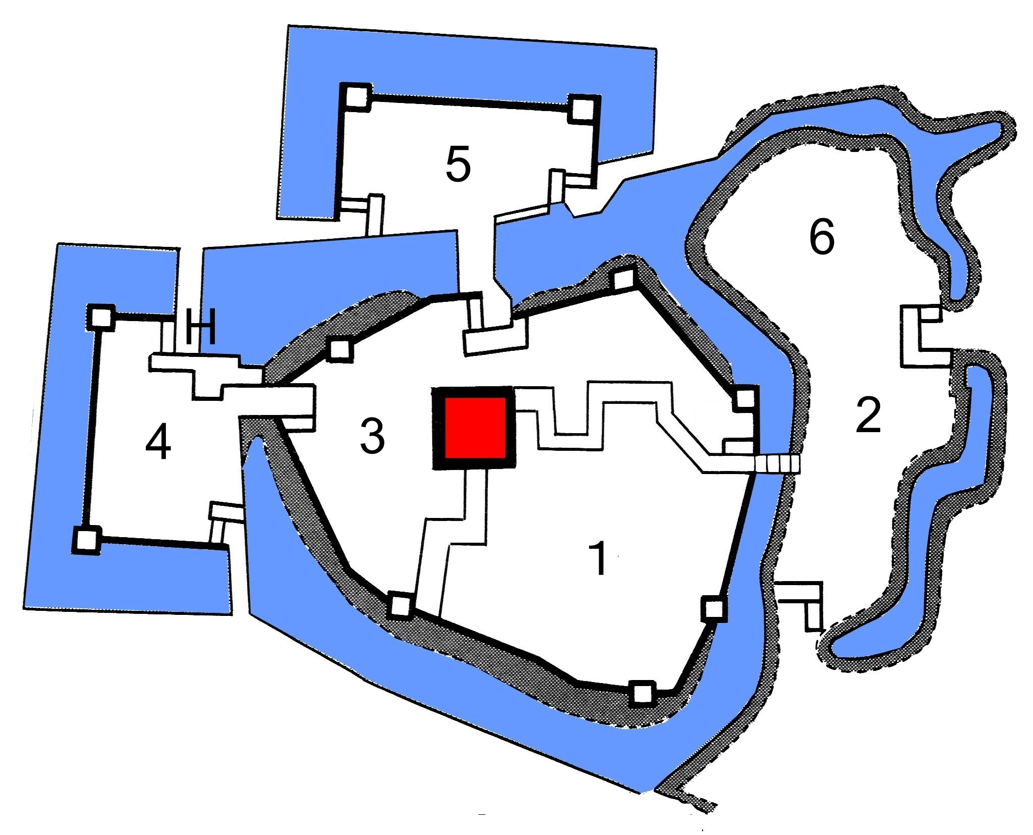 Layout of Wakamatsu Castle